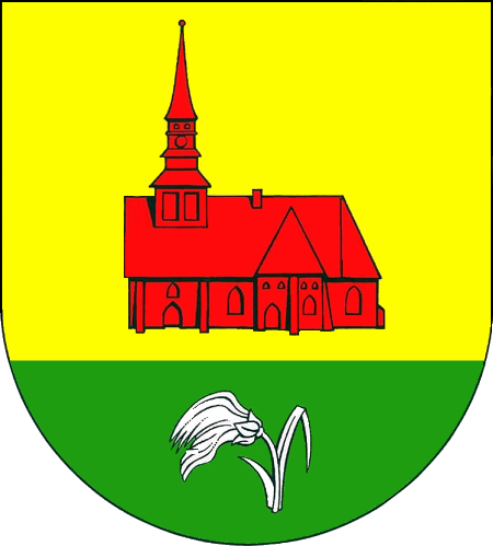 Coat of arms of the municipality Neuenkirchen in Schleswig-Holstein, Germany.